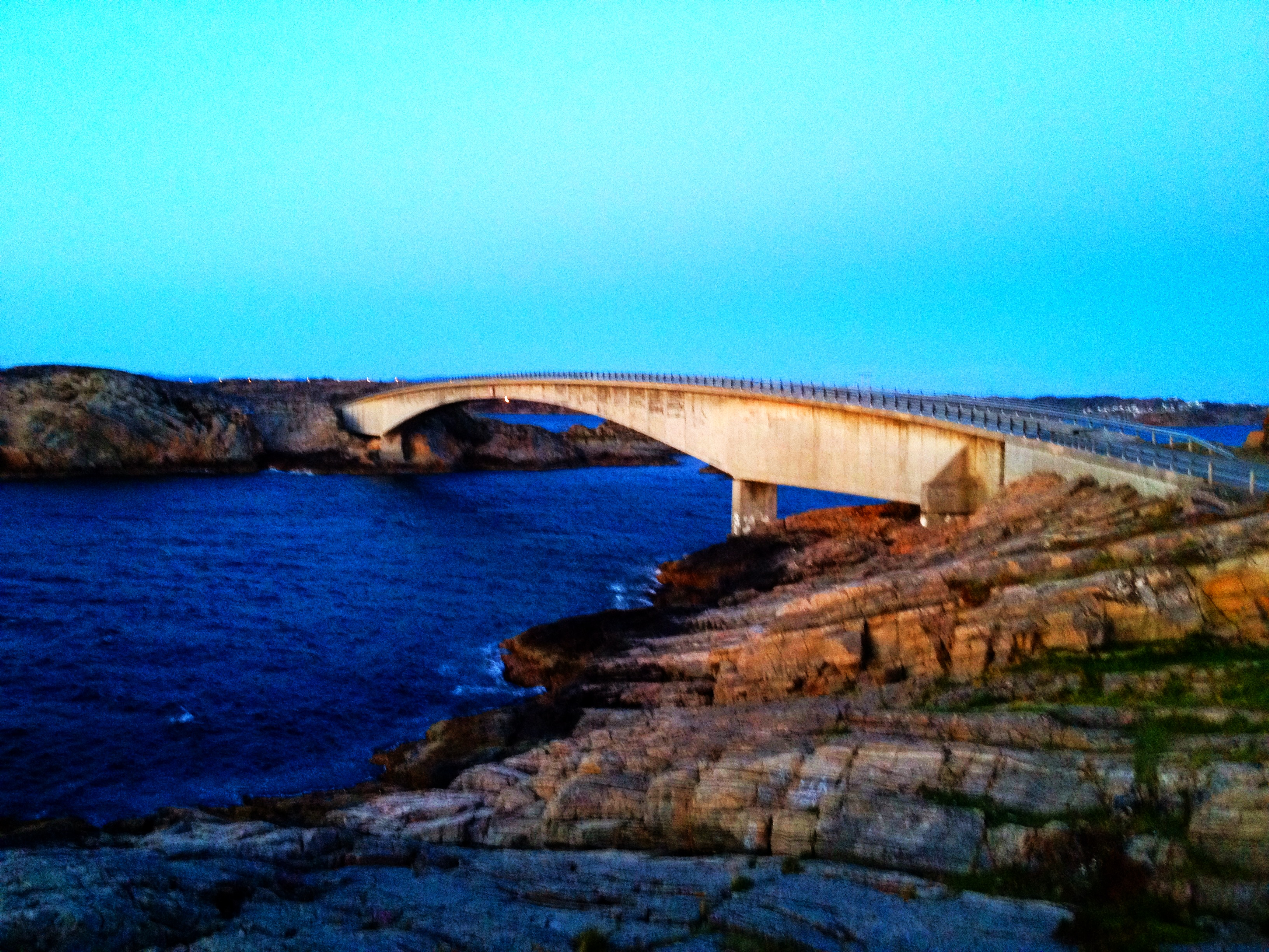 Turøy Bridge at Turøy, an Island west for Bergen City in Norway.